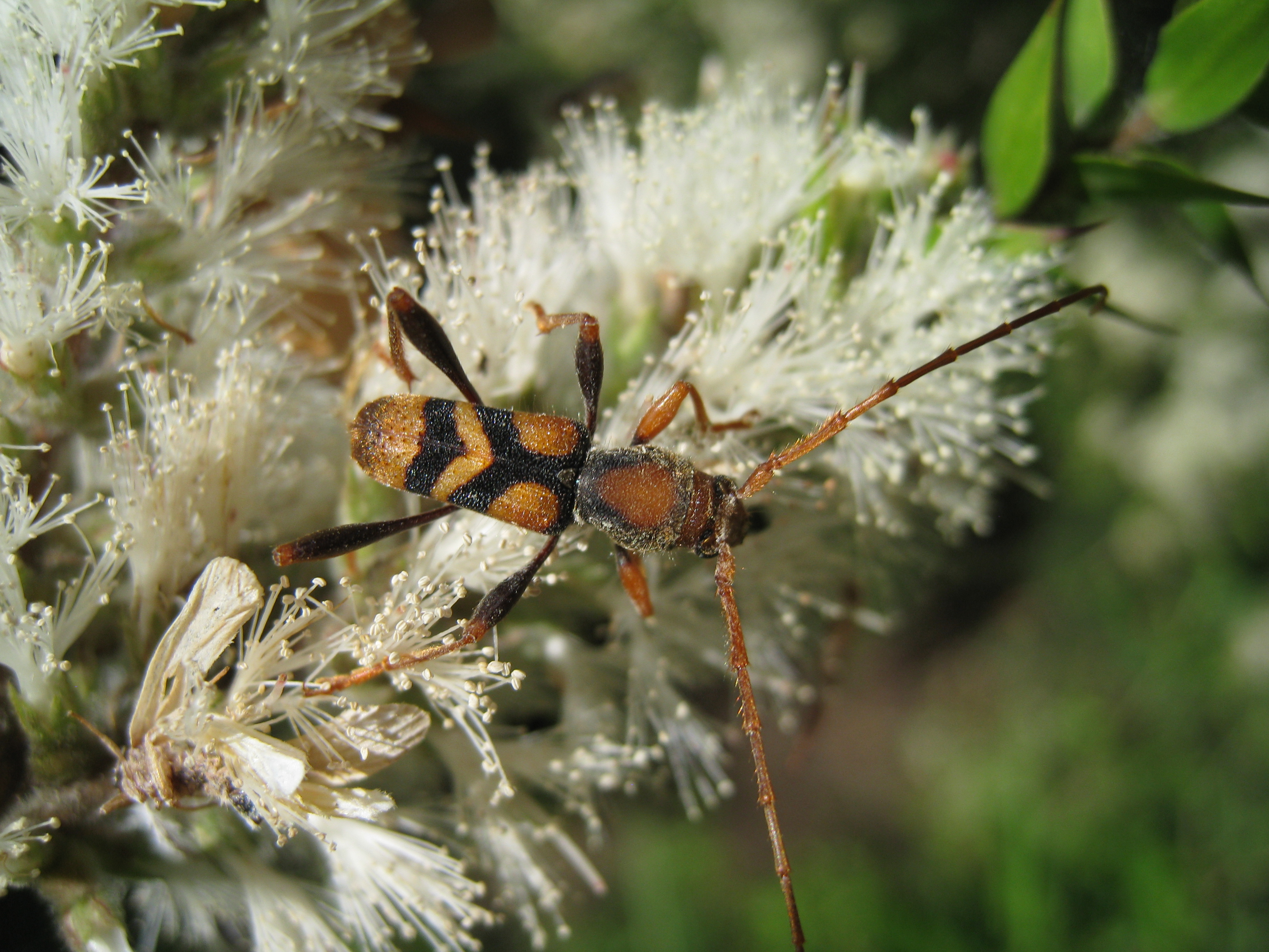 Aridaeus thoracicus, a species of Cerambycidae on Kunzea ambigua. Paruna Reserve, Como NSW Australia November 2010. A wasp mimic.